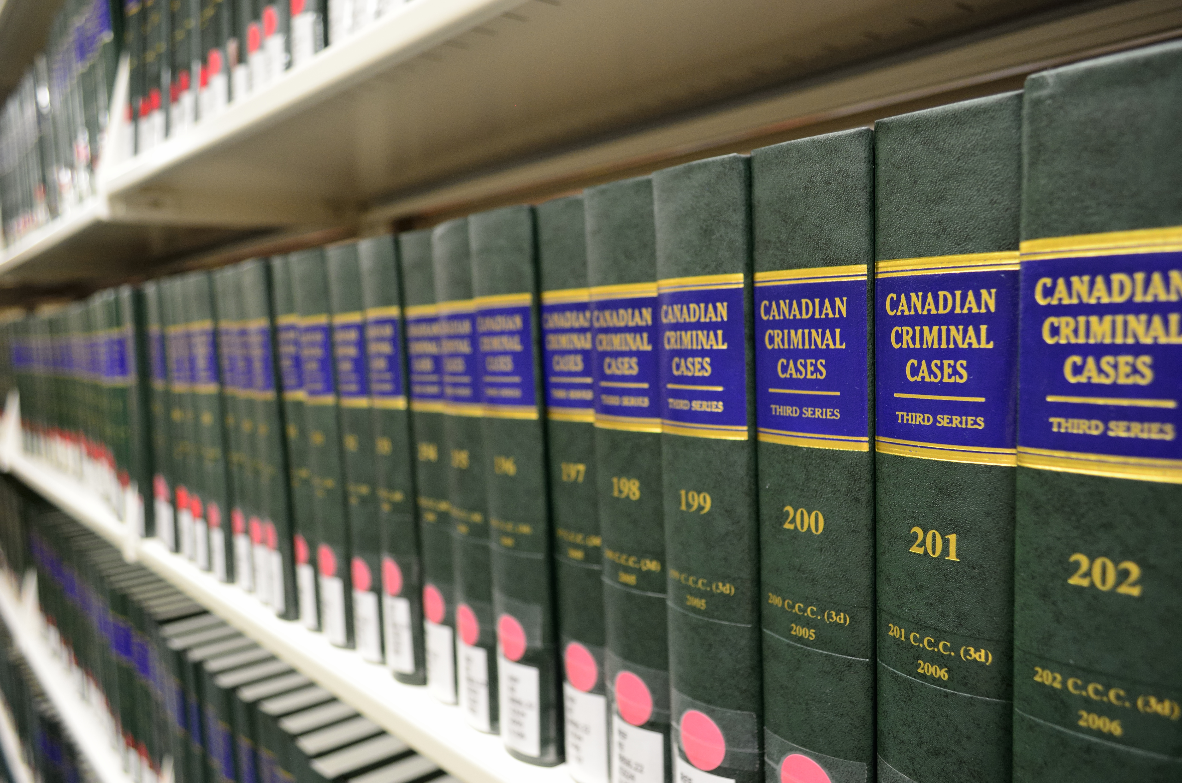 Canadian criminal cases, 3rd Ed